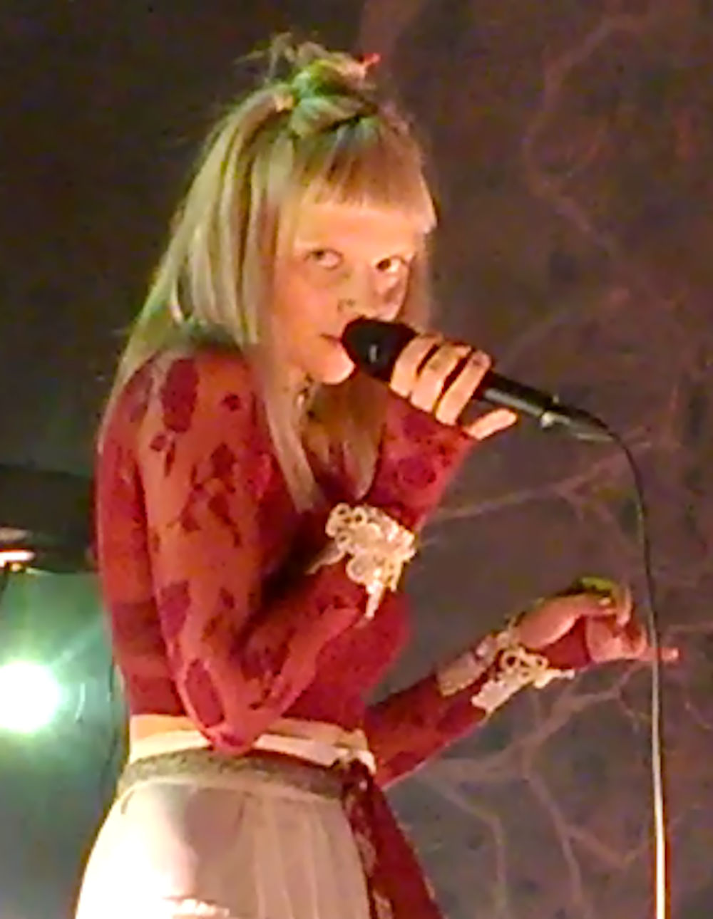 AURORA singing at concert in Sentrum Scene, Oslo, Norway in 14 December 2017